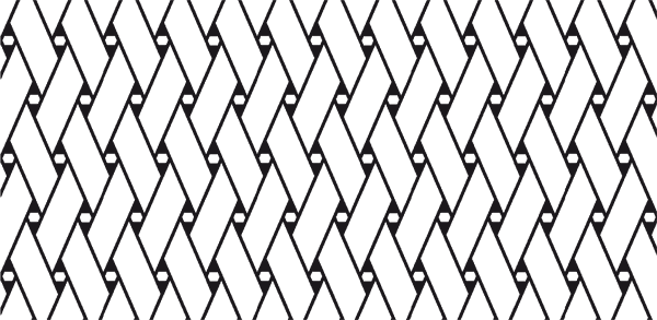 Southern Sami braid design, traditional braid design